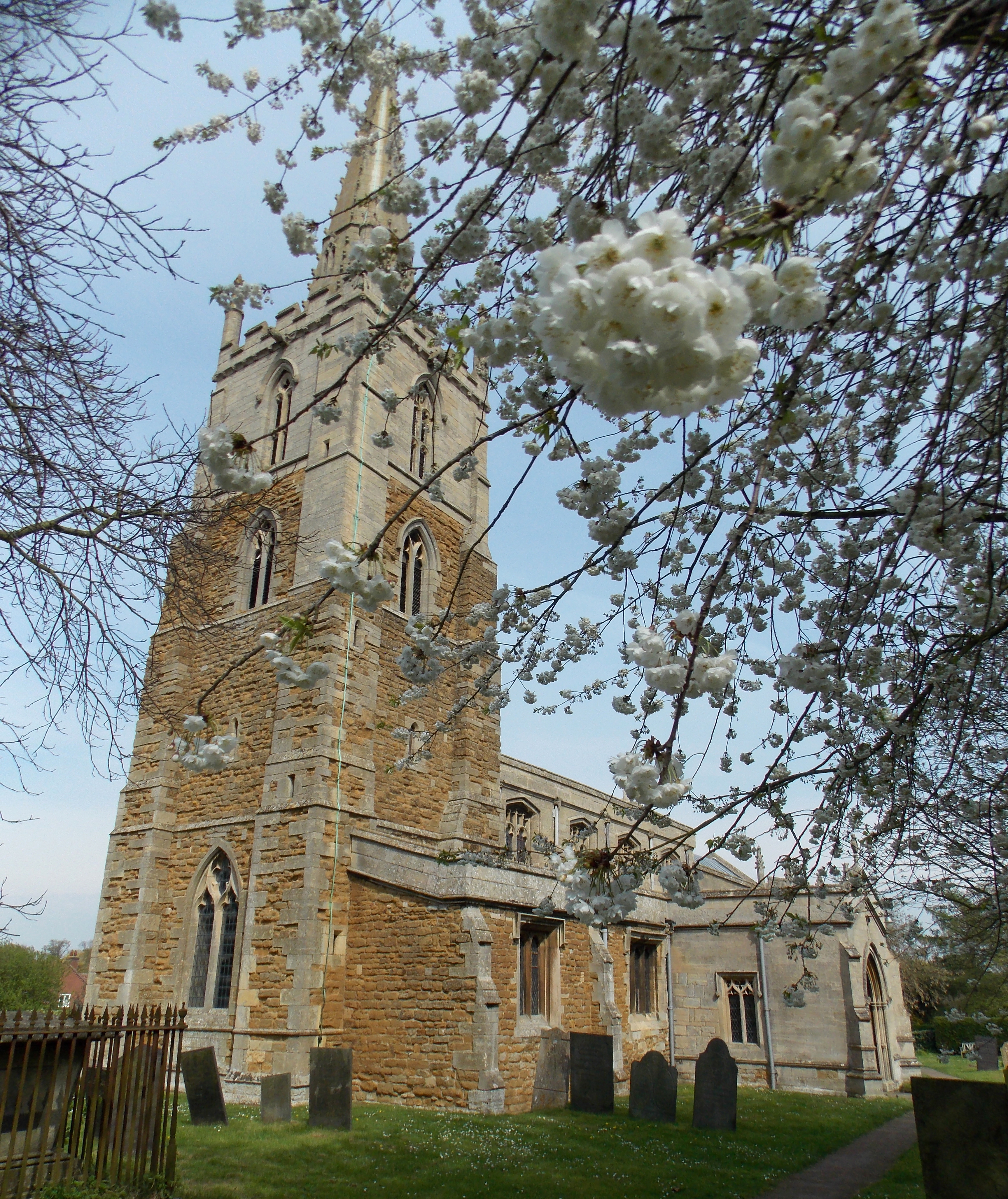 SS Mary and Peter's parish church, Harlaxton, Lincolnshire, seen from the southwest